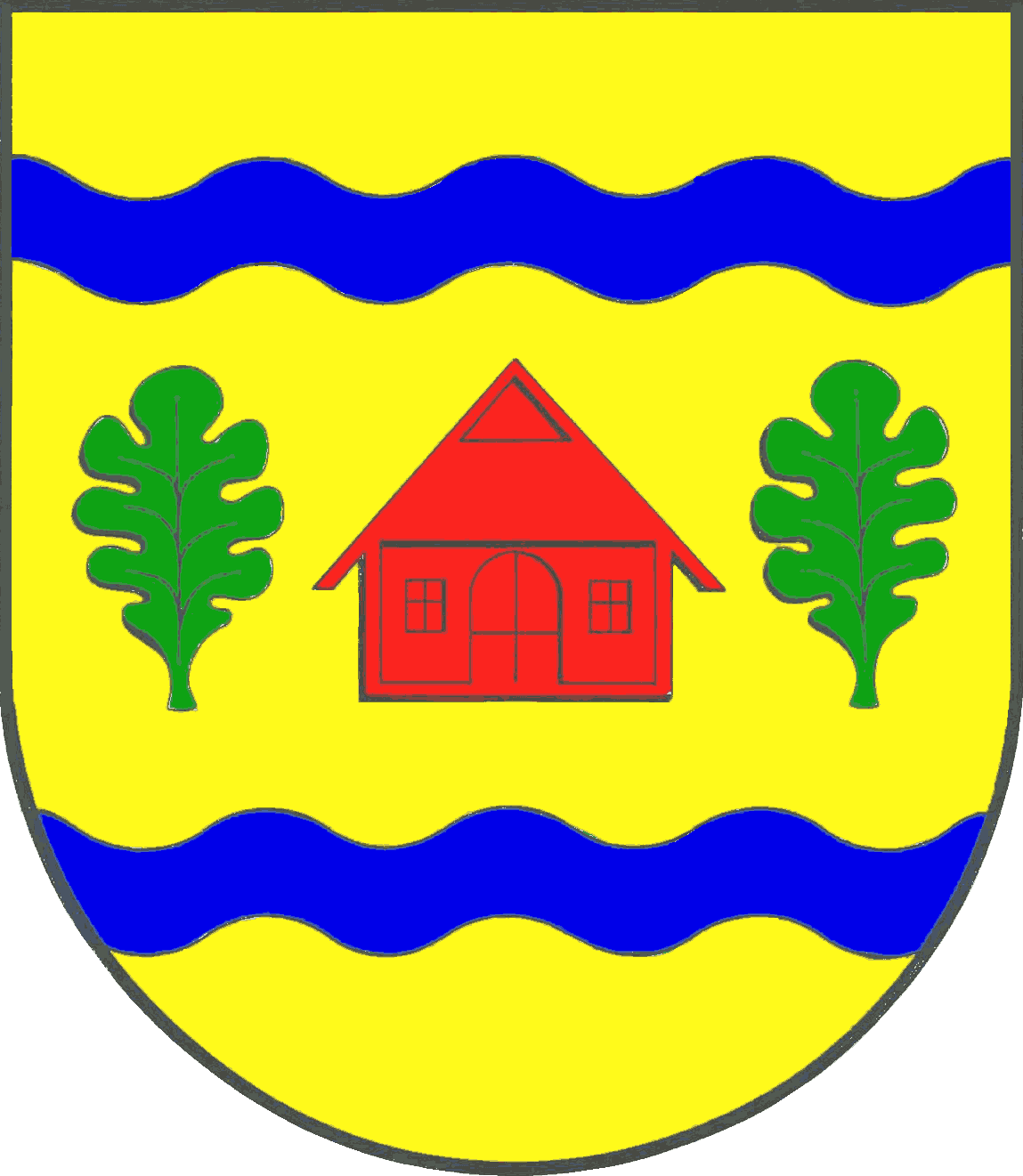 Coat of arms of the municipality Klein Bennebek in Schleswig-Holstein, Germany.